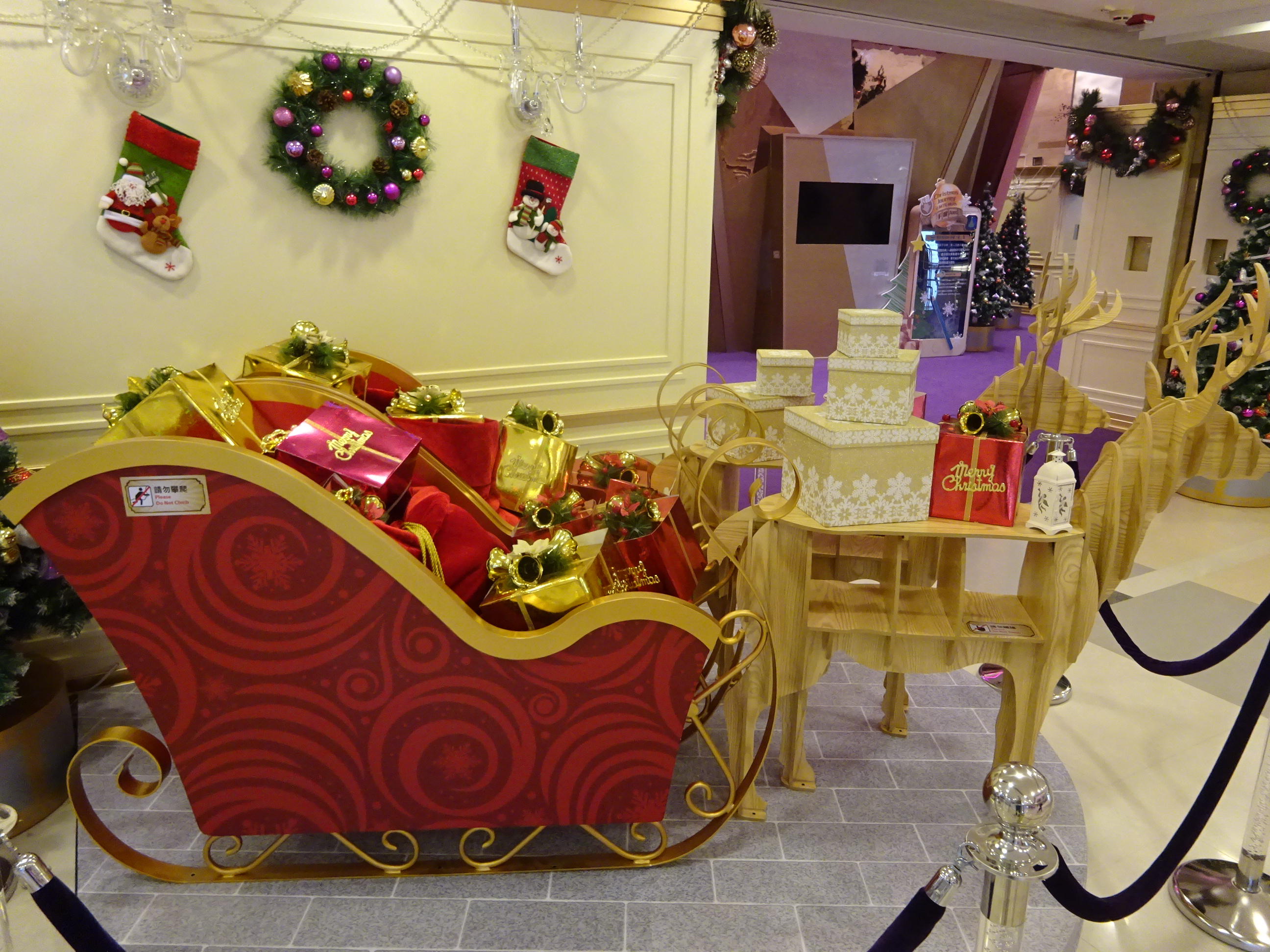 德福廣場, Telford Plaza mall, Kowloon Bay, Kwun Tong District, Hong Kong